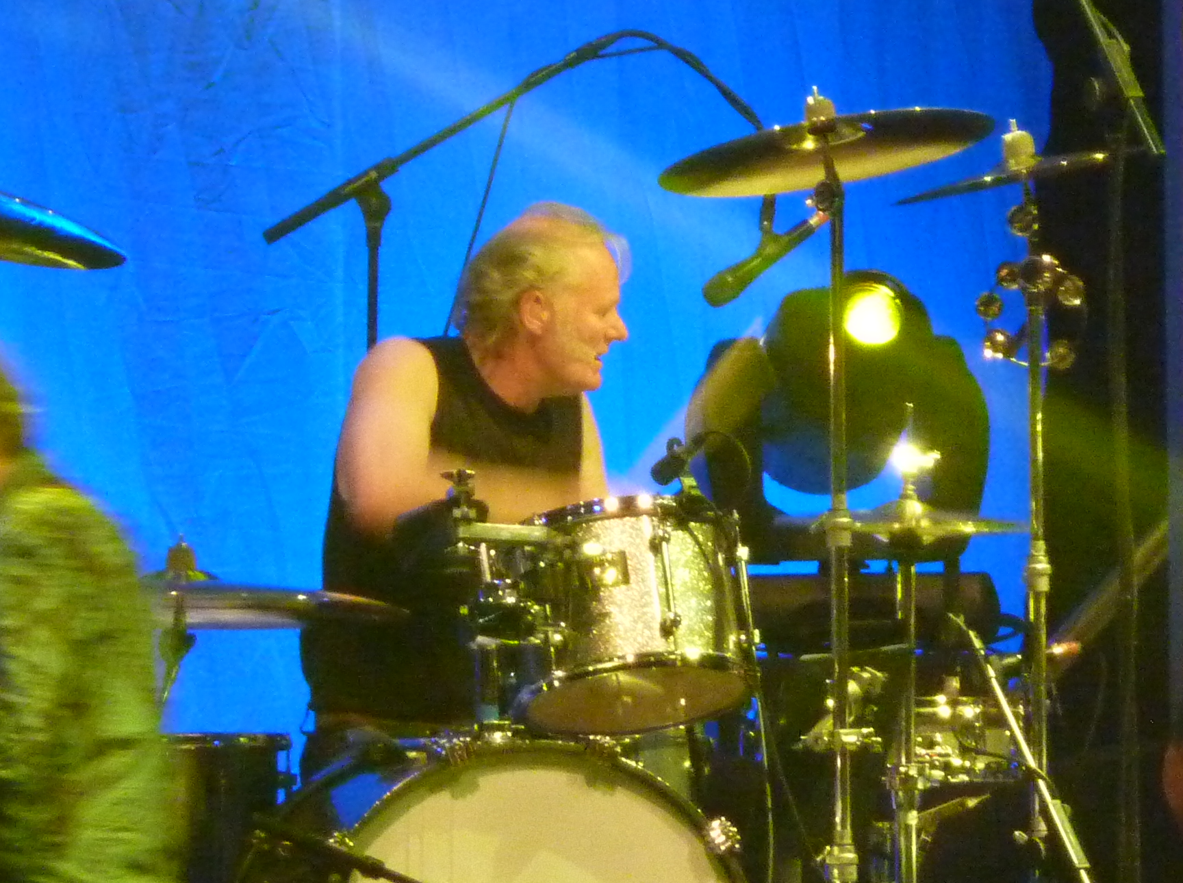 Moot the Hoople reunion gig, 2009.